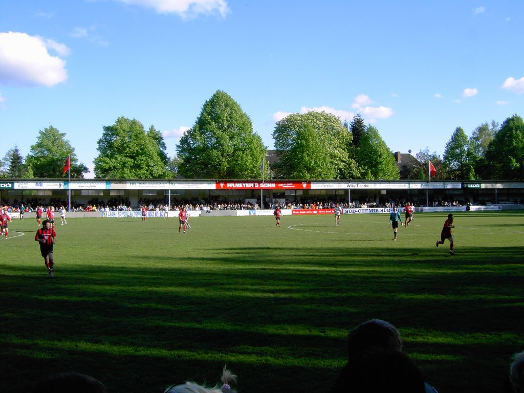 Main bridge of the Stadium Marienthal in Hamburg-Wandsbek, homeground of the S.C. Concordia von 1907. Picture taken by Mghamburg on 14th May 2006 during the regional cup game between S.C. Concordia and FC St. Pauli